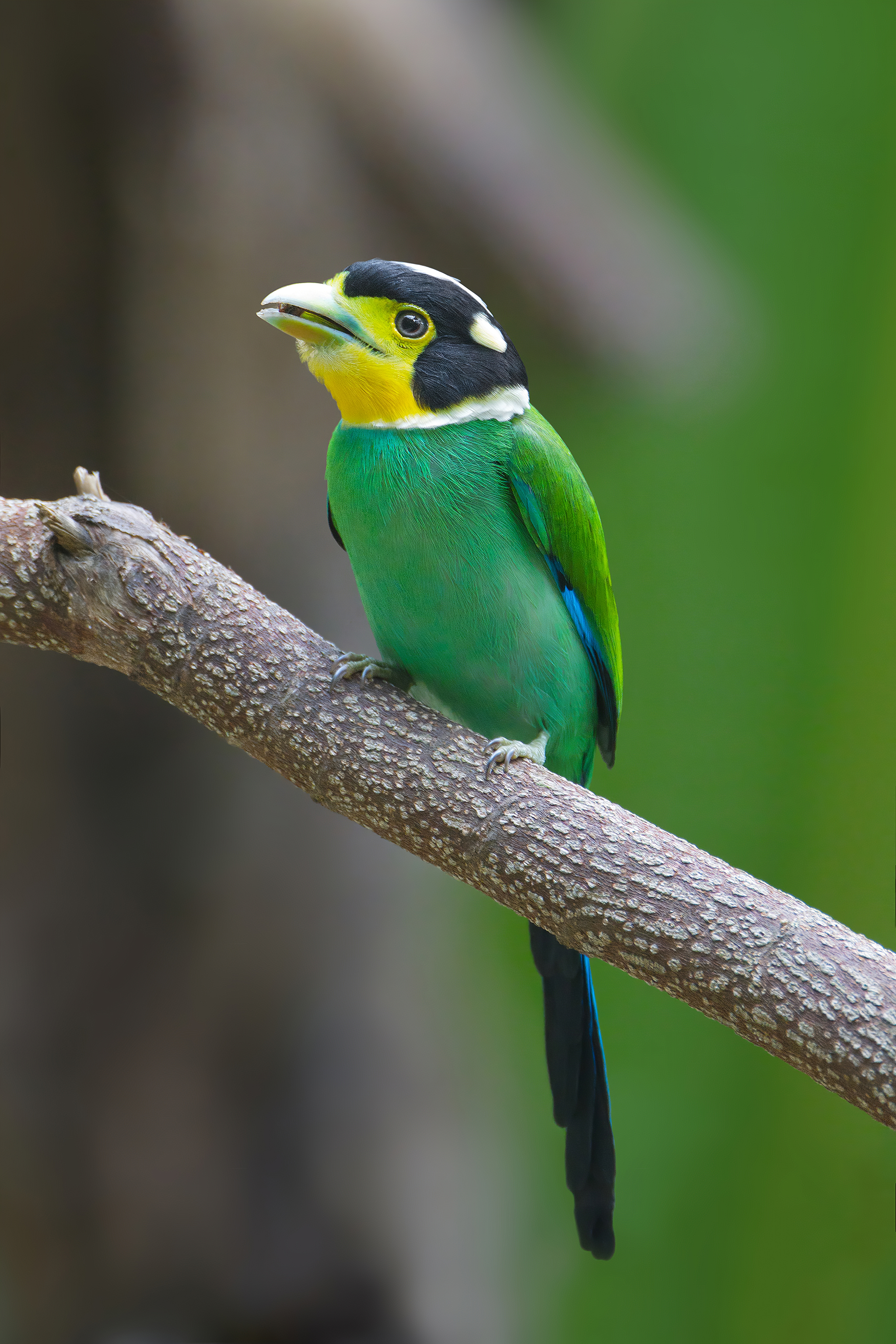 Long-tailed Broadbill (Psarisomus dalhousiae), Kaeng Krachan National Park, Phetchaburi, Thailand